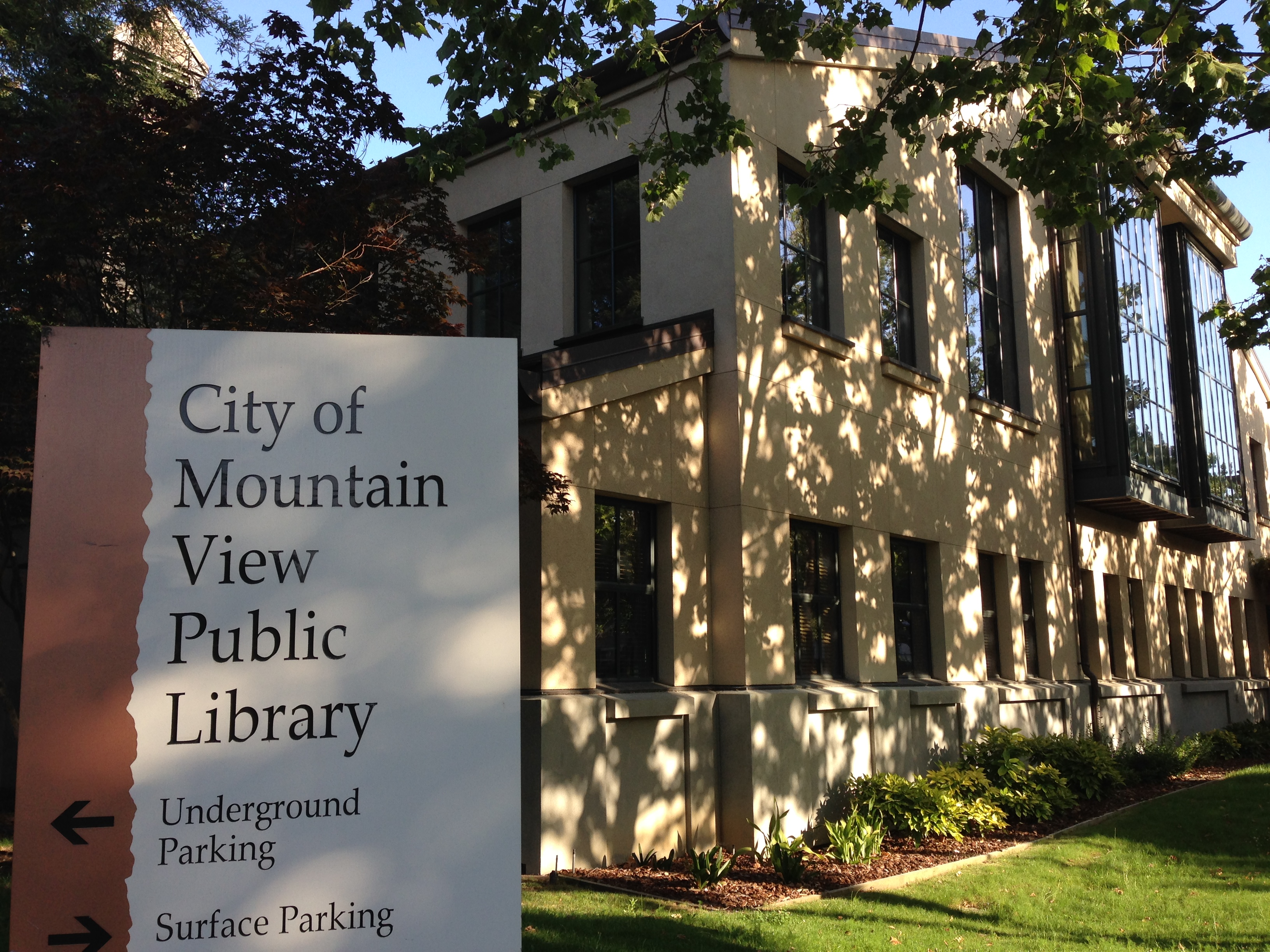 City of Mountain View, California